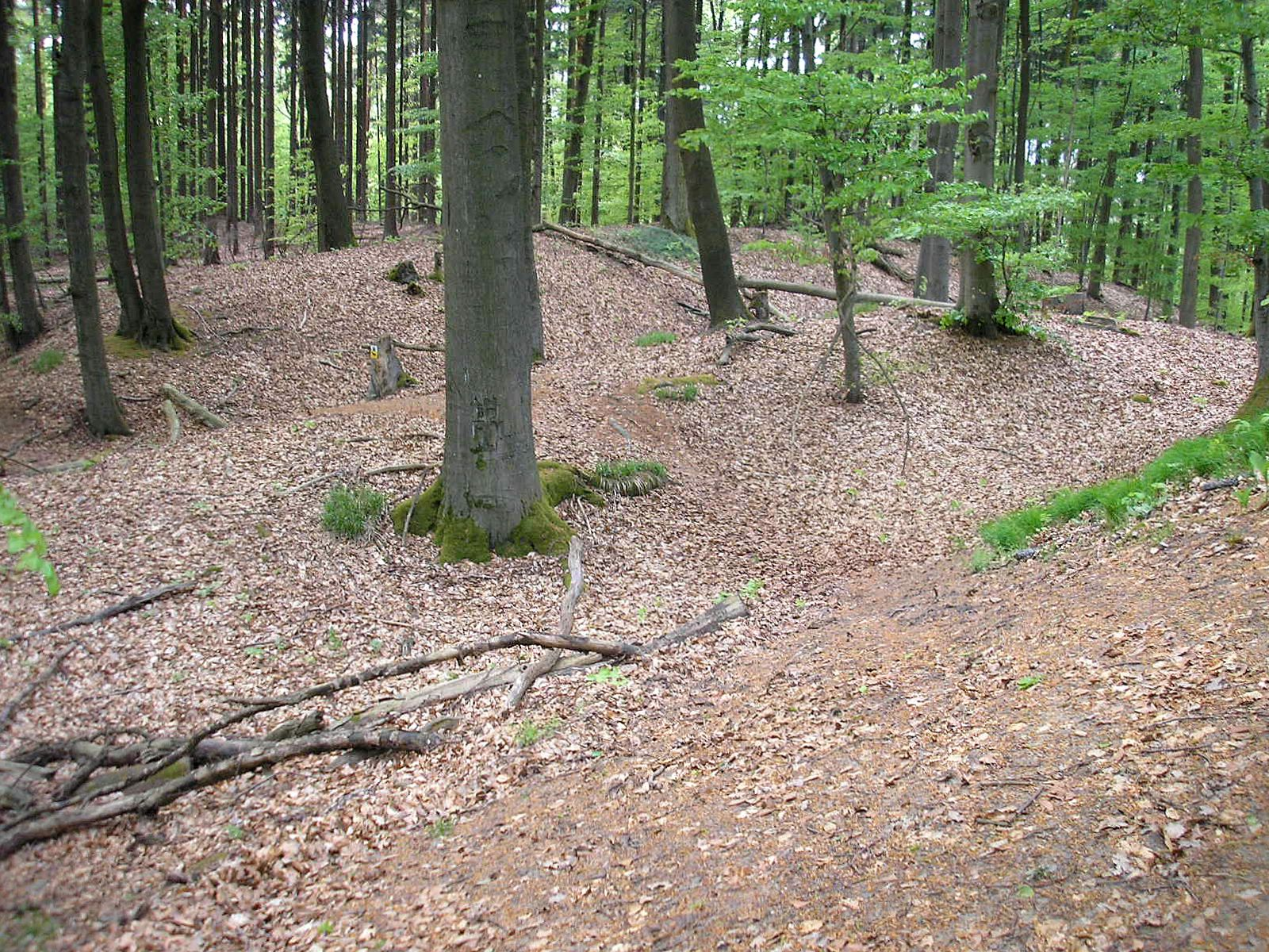 Stufenberg castle (Baunach, Landkreis Bamberg, Upper Franconia, Bavaria, Germany). The western earthworks in front of the central castle